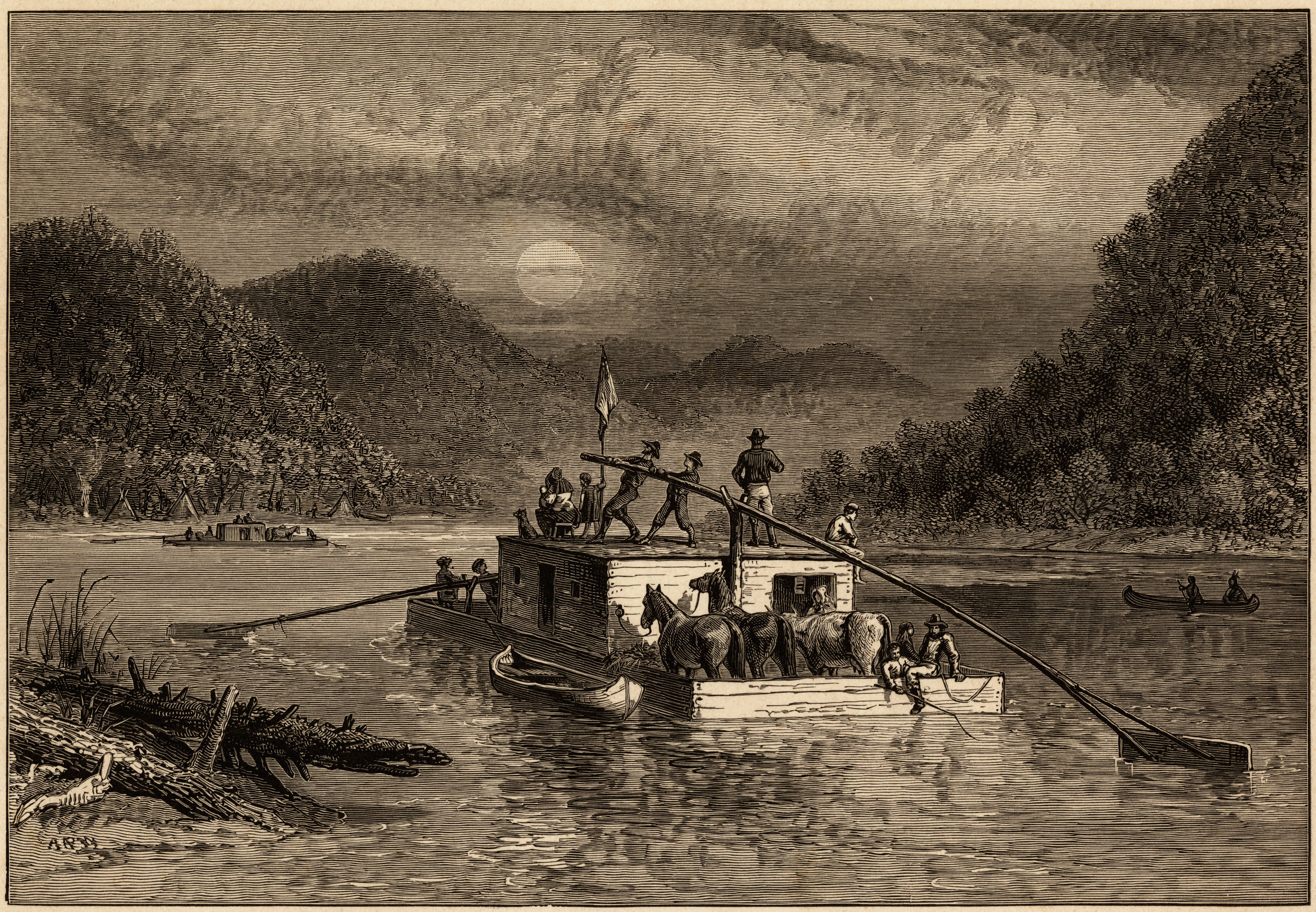 A group of people along with horses onboard a flatboat as they travel down a river under a moonlit sky.